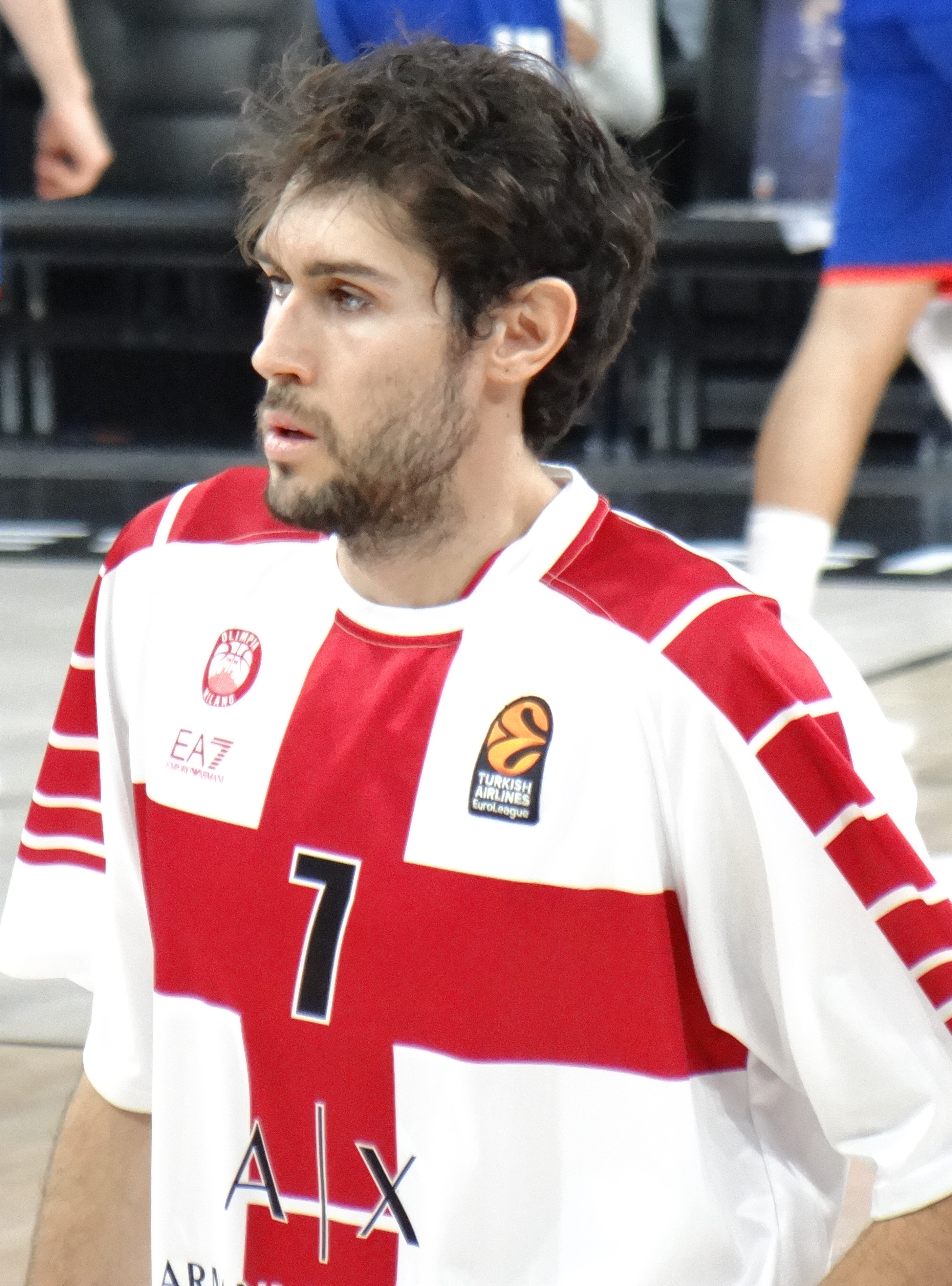 Davide Pascolo 7 AX Armani Exchange Olimpia Milan 20171130